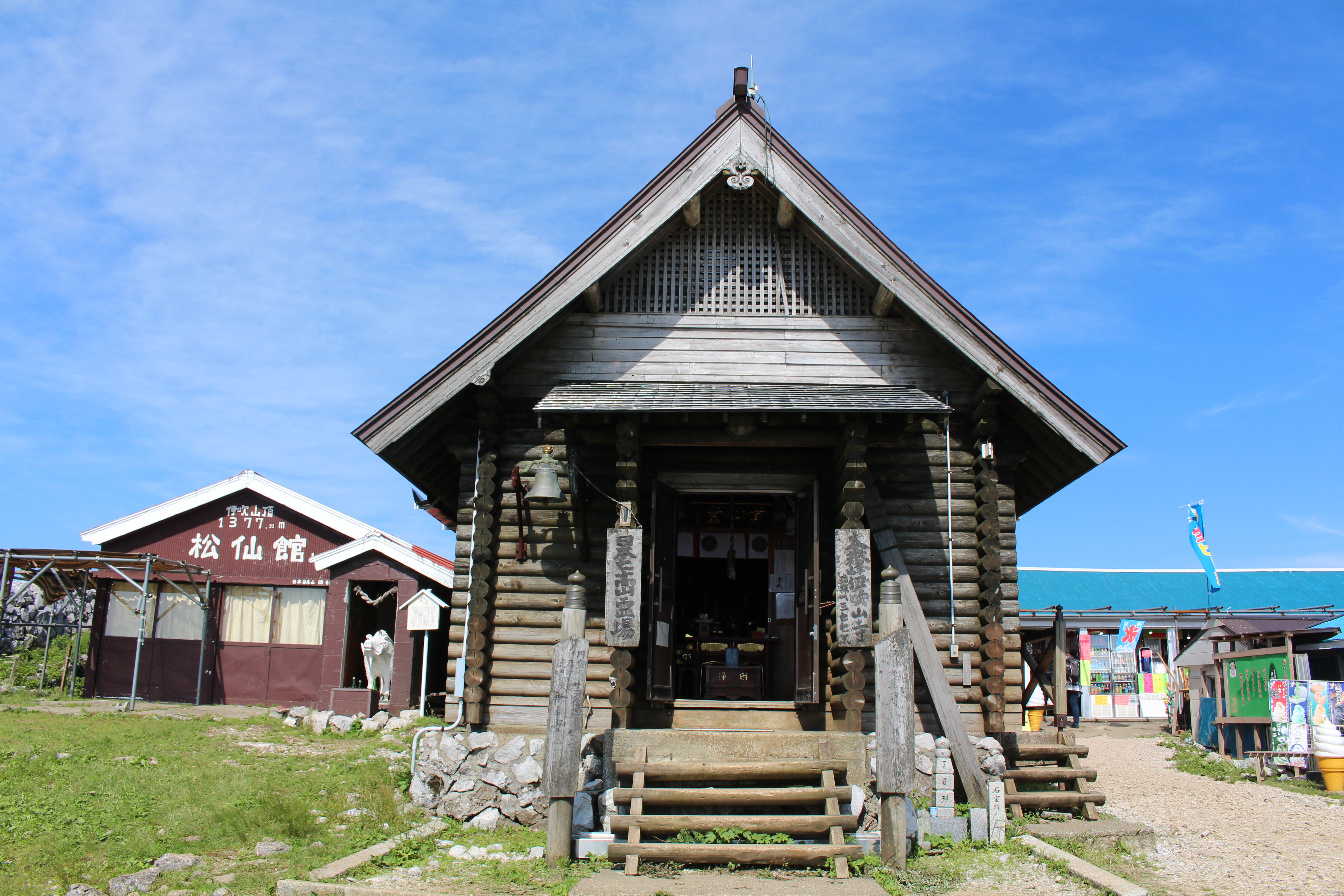 Ibukisanji on top of Mount Ibuki, Maibara, Shiga prefecture, Japan.